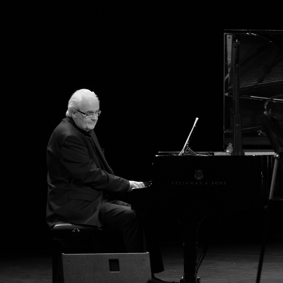 Ole Paus and Ketil Bjørnstad performs at the Oslo Jazzfestival 2015